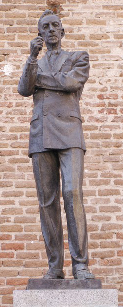 Partial view of the Monument to Agustín Lara in Madrid (Spain). Statue was made by Mexican sculptor Humberto Peraza.